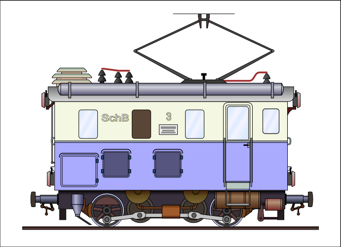 Schöllenenbahn: HGe 2/2 3 Info: Schöllenenbahn 1916-1961, Furka Oberalp Bahn 1961-1980